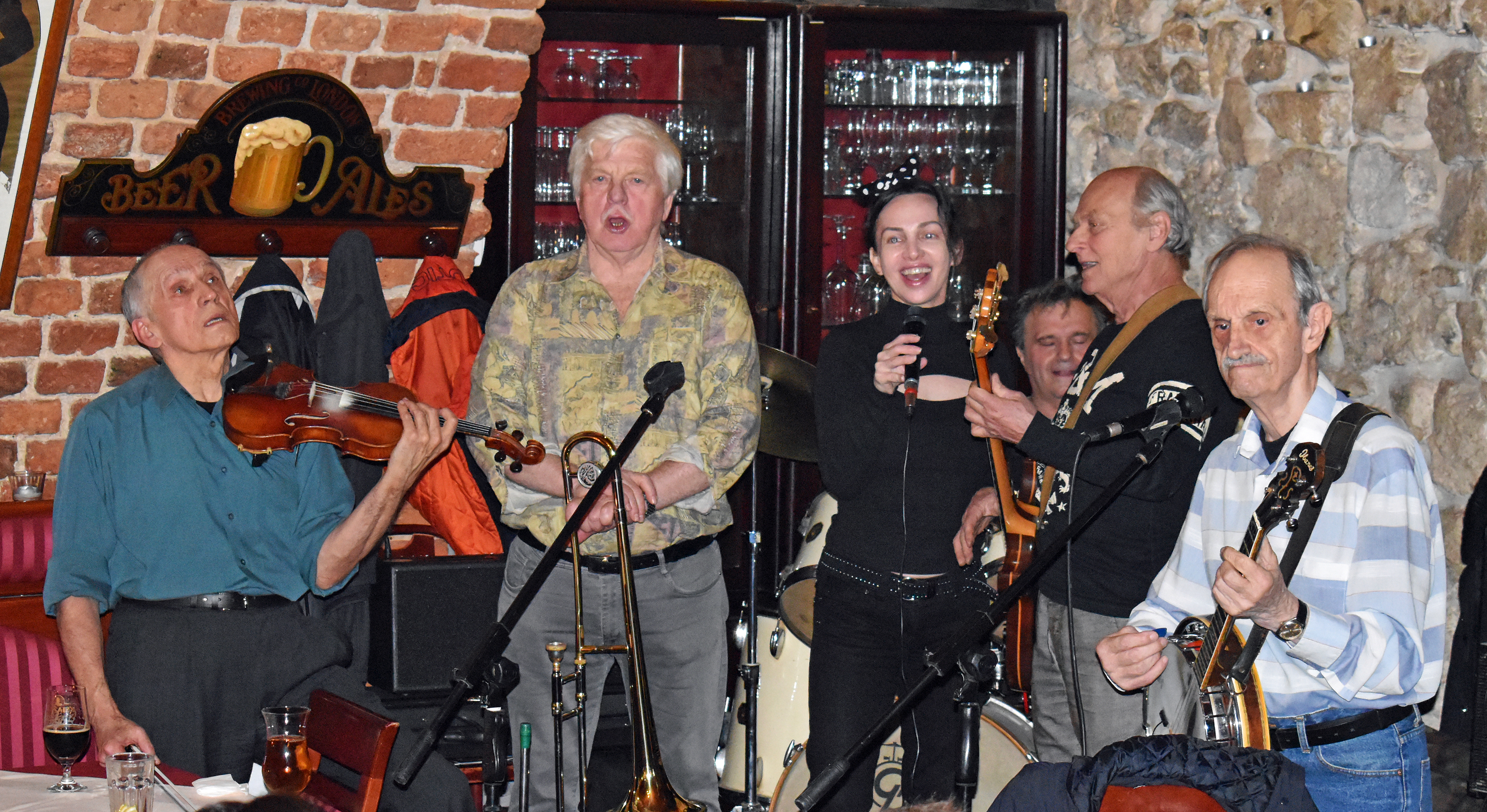 Old Metropolitan Band (2017), Polish trad jazz band (Est. 1968), Pod Zlota Pipa Pub, 30 Florianska street, Old Town, Krakow, Poland